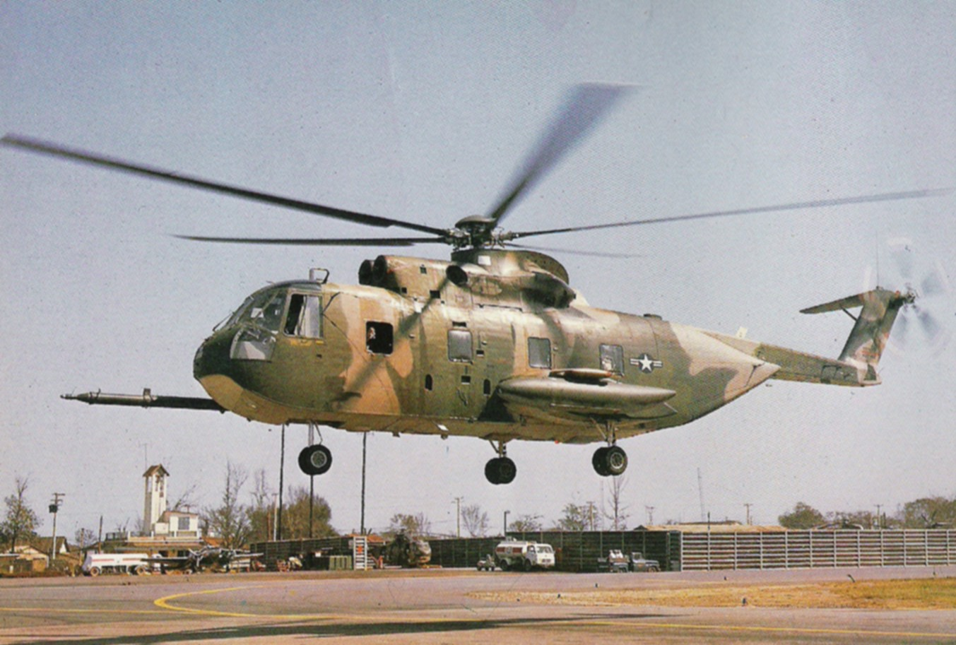 A U.S. Air Force Sikorsky HH-3E Jolly Green Giant helicopter (s/n 66-13290) of the 37th Aerospace Rescue and Recovery Squadron taking off from Da Nang Air Base, South Vietnam, in 1968.The HH-3E 66-13290 was retired to the AMARC as HH0026 on 18 March 1991.